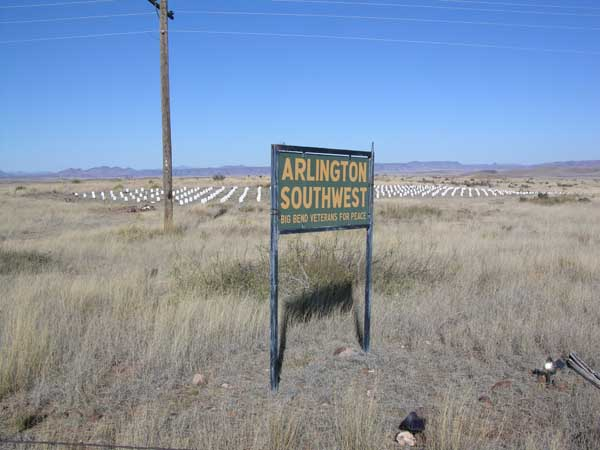 Arlington Southwest unoccupied cemetery east of Alpine, Texas, serving as an ongoing protest against the Iraq War.